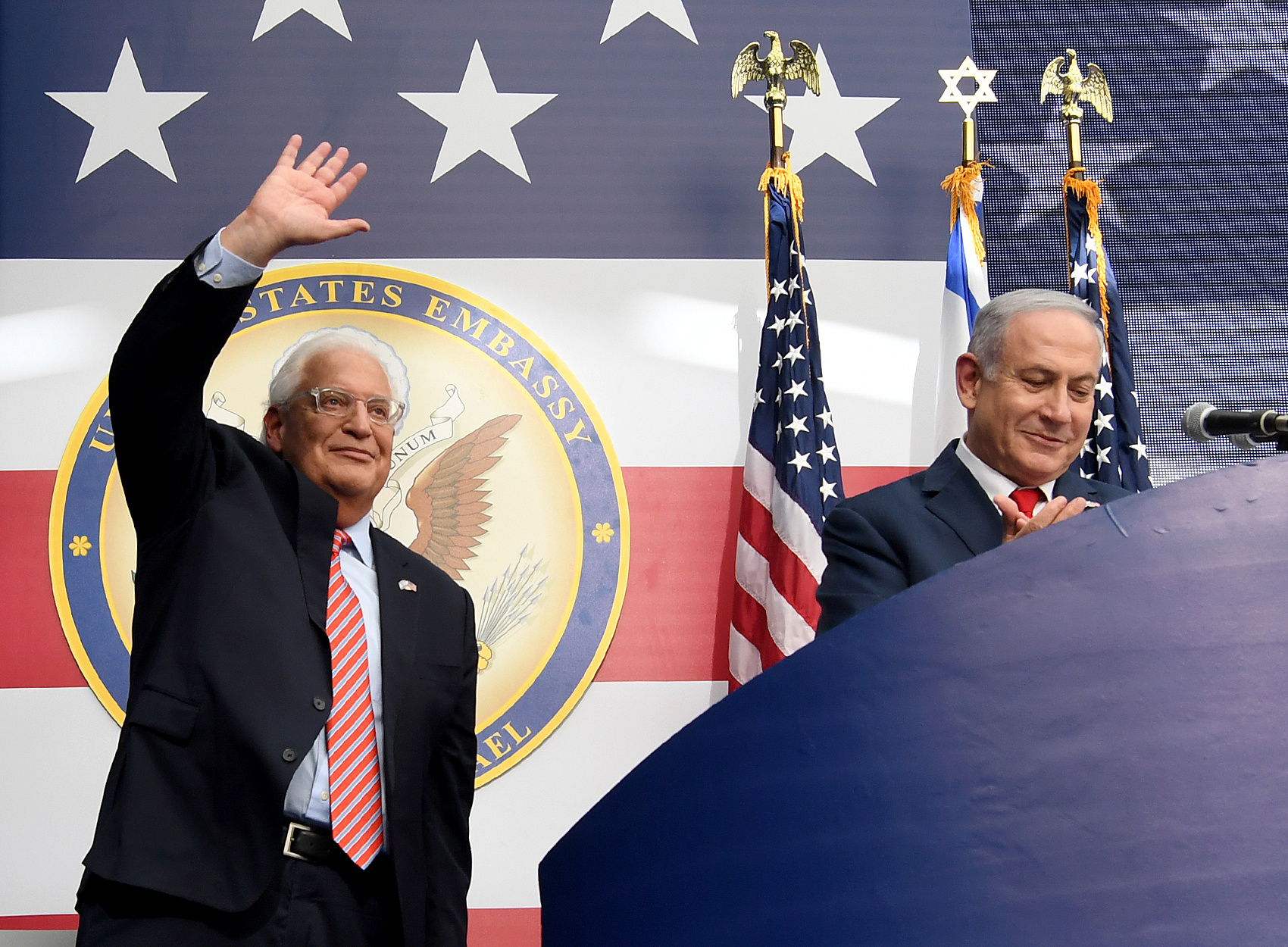 Embassy Dedication Ceremony